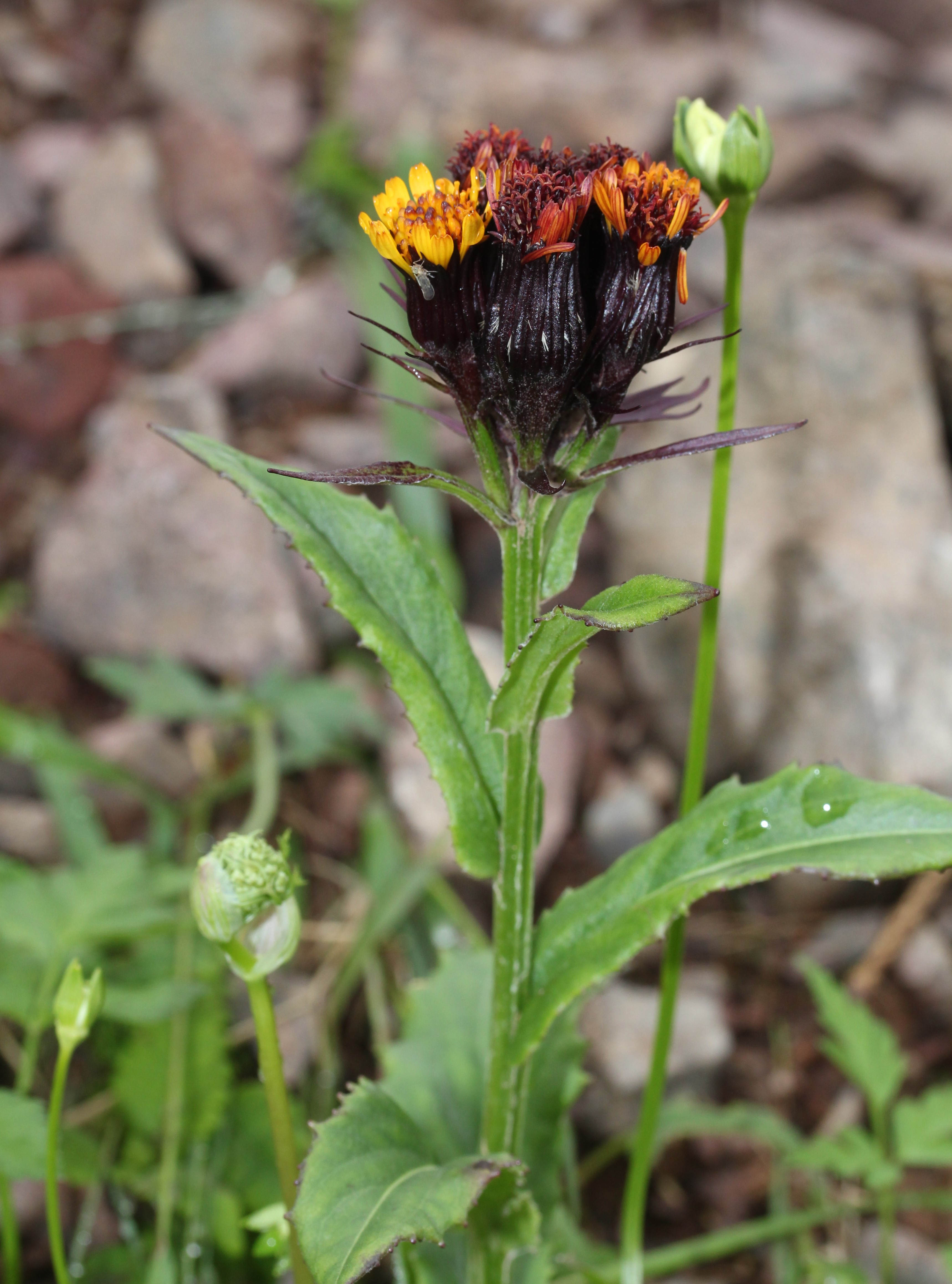 Tephroseris takedana in Mount Hijiri, Akaishi Mountains, Iida, Nagano Prefecture, Japan. Canon EOS Kiss X7i